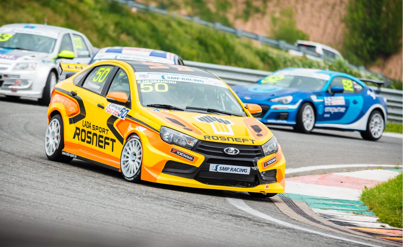 Nezvankin, Lada Vesta Turbo, Kazan, RCRS 2017